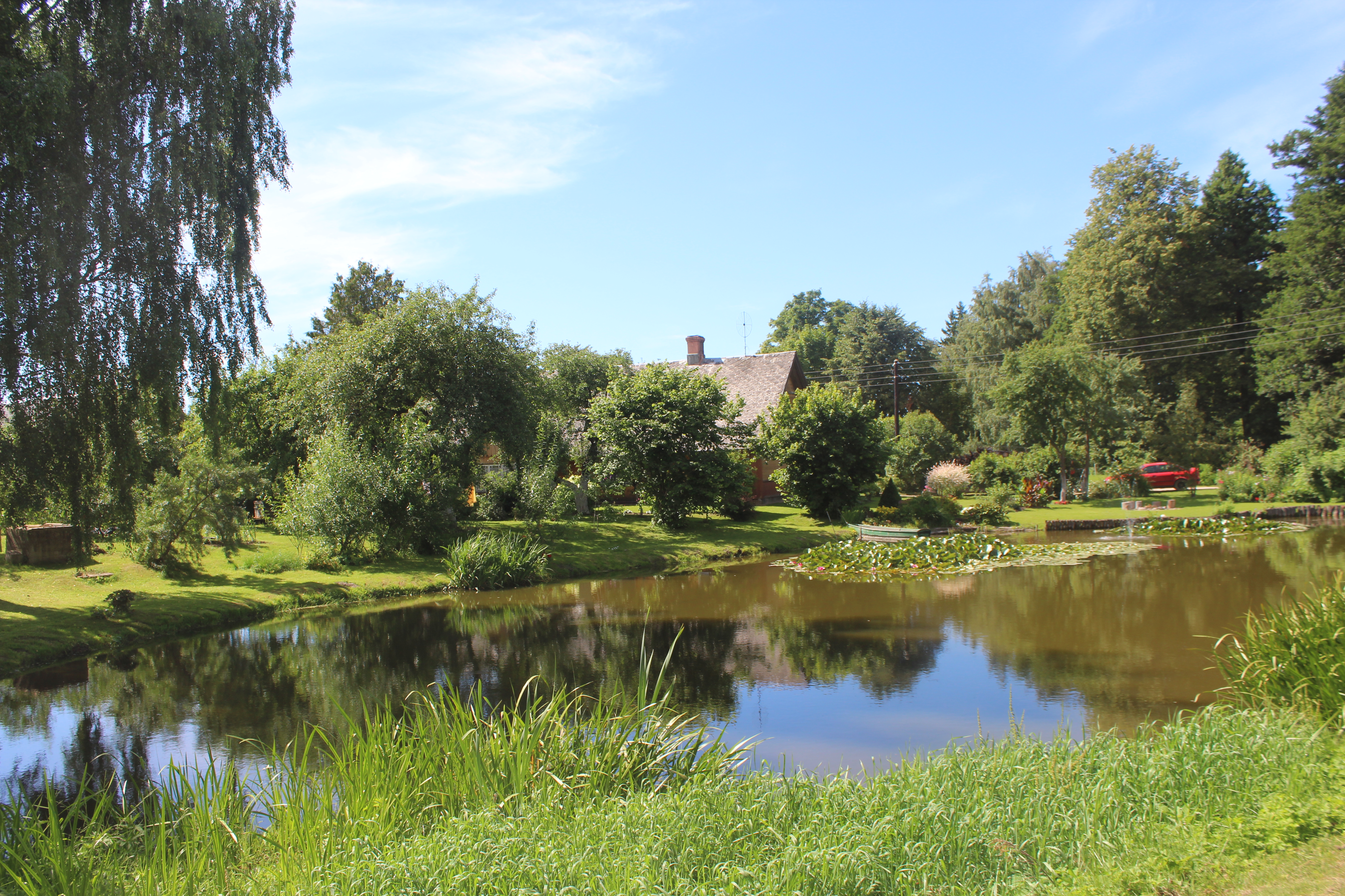 Village Tūjasmuiža, Liepupe parish.